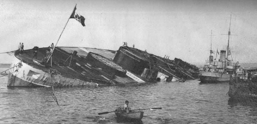 Wreck of Leonardo da Vinci (ship, 1911) in Taranto, 25 gennaio 1921